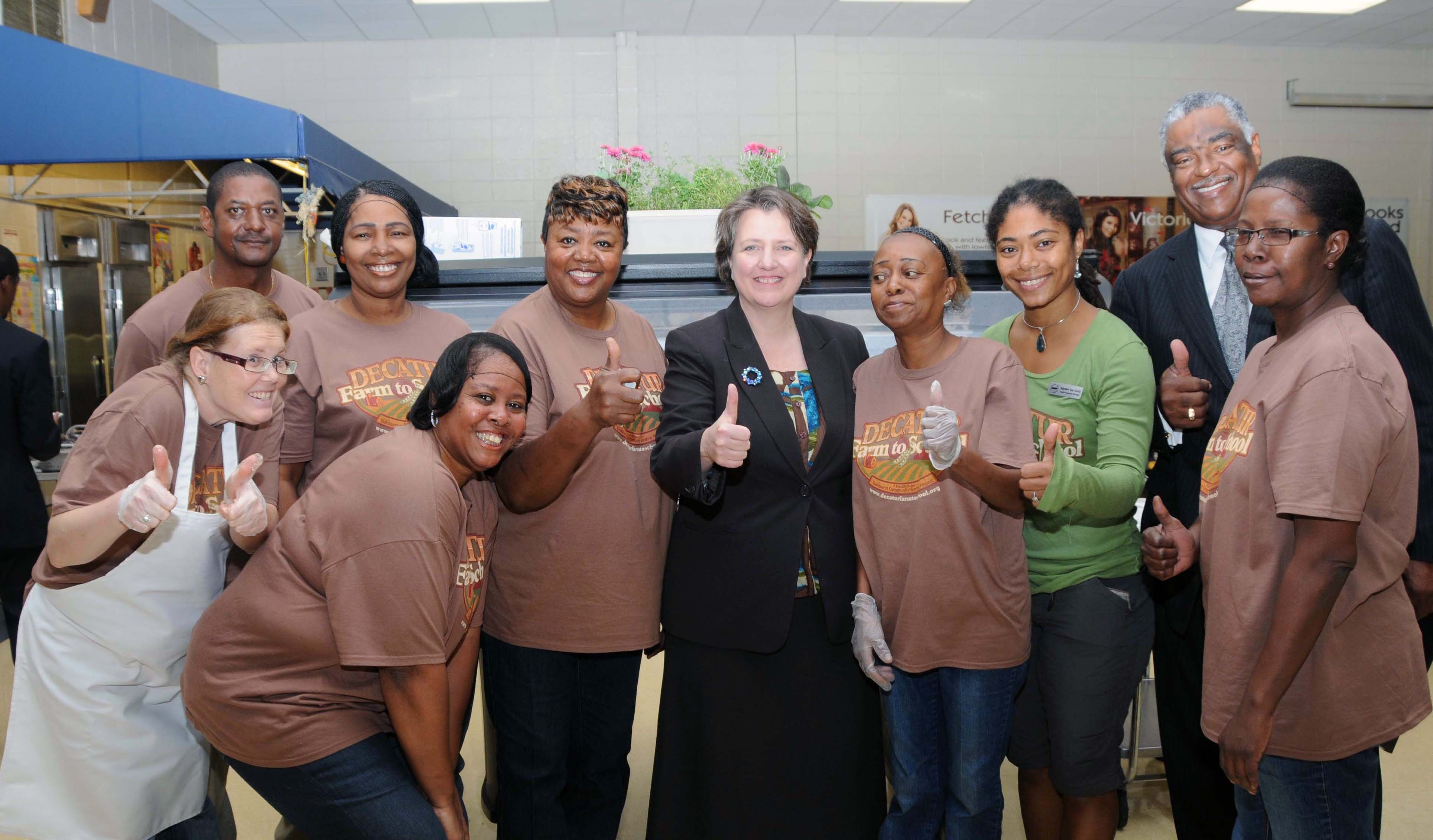 Agriculture Deputy Secretary Kathleen Merrigan and FNS Southeast Regional Administrator Donald Arnette give a thumbs up with the cafeteria nutrition staff while visiting Carl G. Renfroe Middle School in Decatur, GA, during National School Lunch Week and Farm to School Month on Friday, October 14, 2011. (USDA photo by Debbie Smoot).